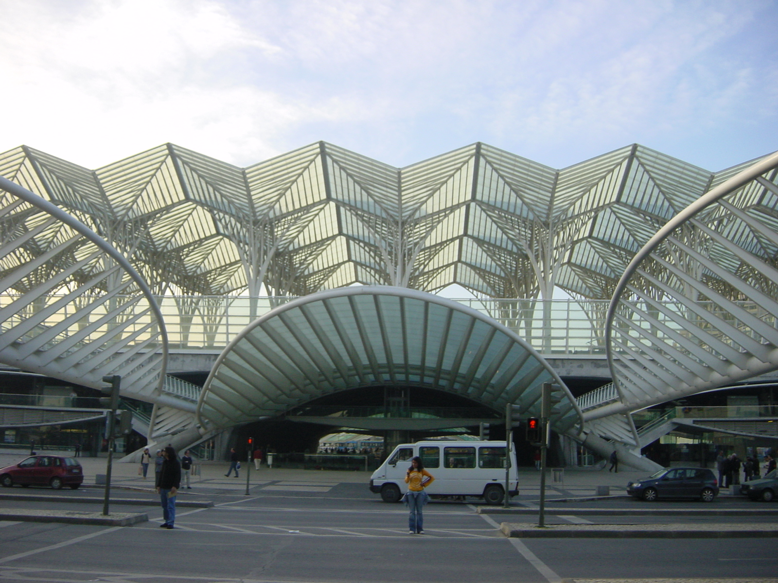 Gare do Oriente train station, Lisbon, Portugal